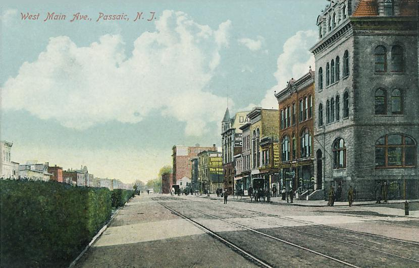 West Main Avenue, Passaic, New Jersey; from a 1911 postcard published by the Metropolitan News Company, Boston, Massachusetts.